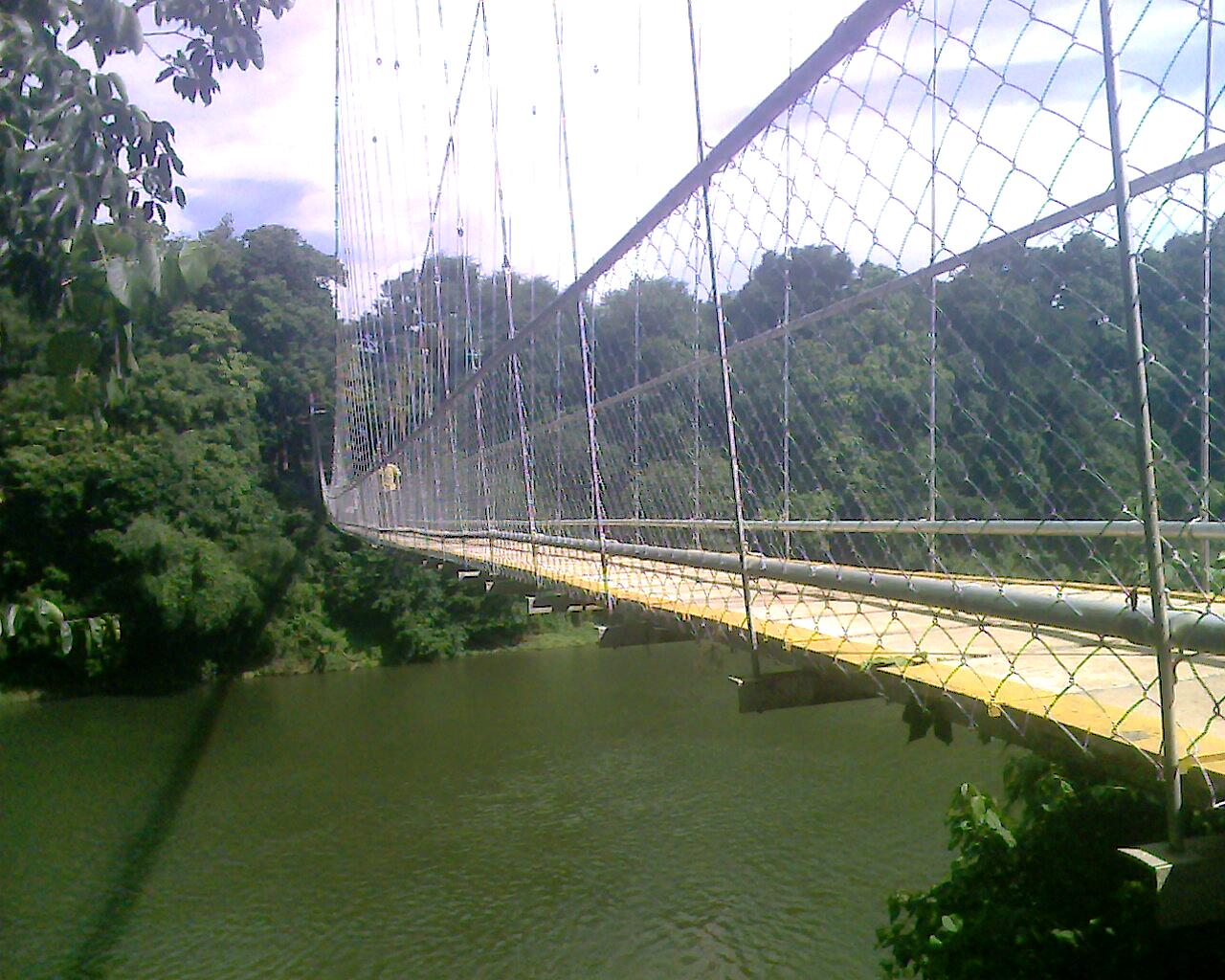 Hanging bridge across Chaliyar River in Nilambur, which connects to Conolly Teak Plantation.